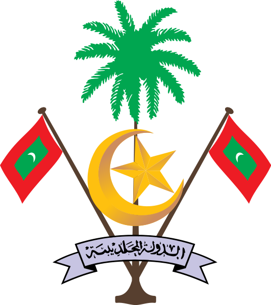 Coat of arms of the republic of Maldives